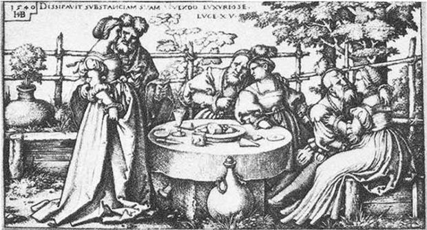 The Prodigal Son Wasting His Patrimony